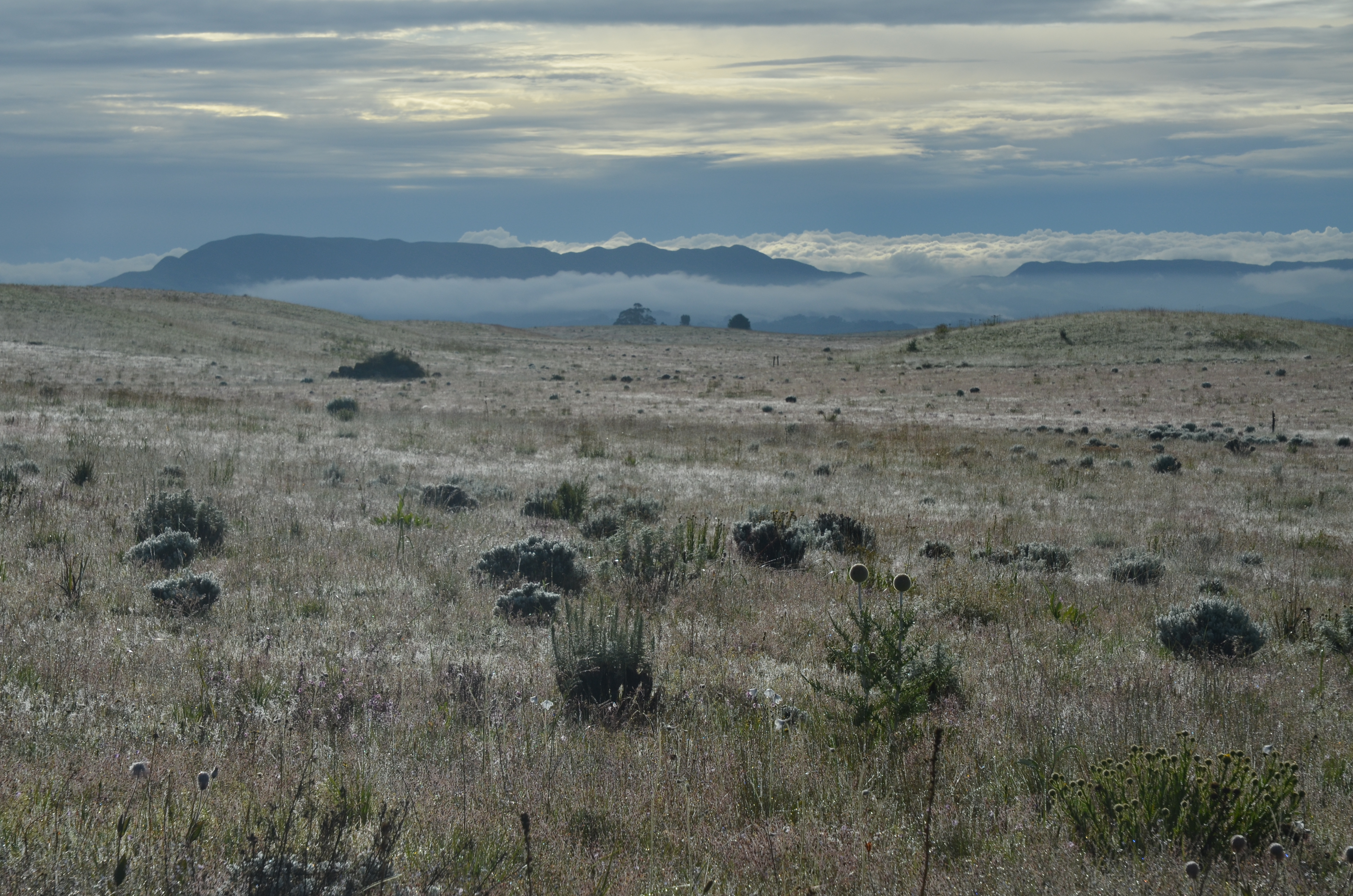 Open grassland in Kitulo National Park, in the morning Picture taken in Kitulo National Park.